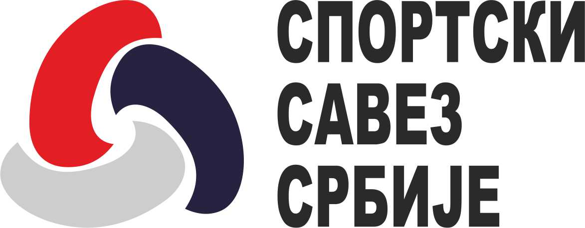 Logotype of Serbian Sports Union